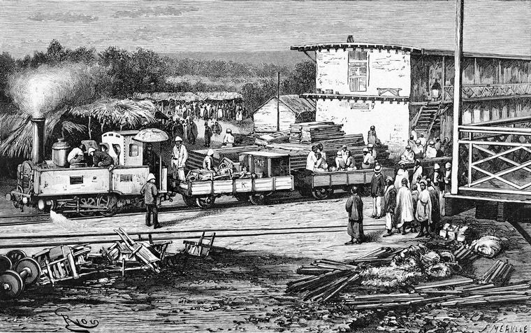 Railway station in Kayes